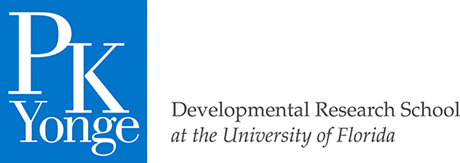 P.K. Yonge Developmental Research School at the University of Florida